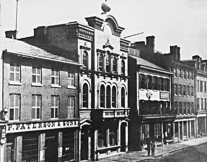 Toronto Globe newspaper office (with a globe on top) on King Street East, Toronto, Canada, early 1860s.